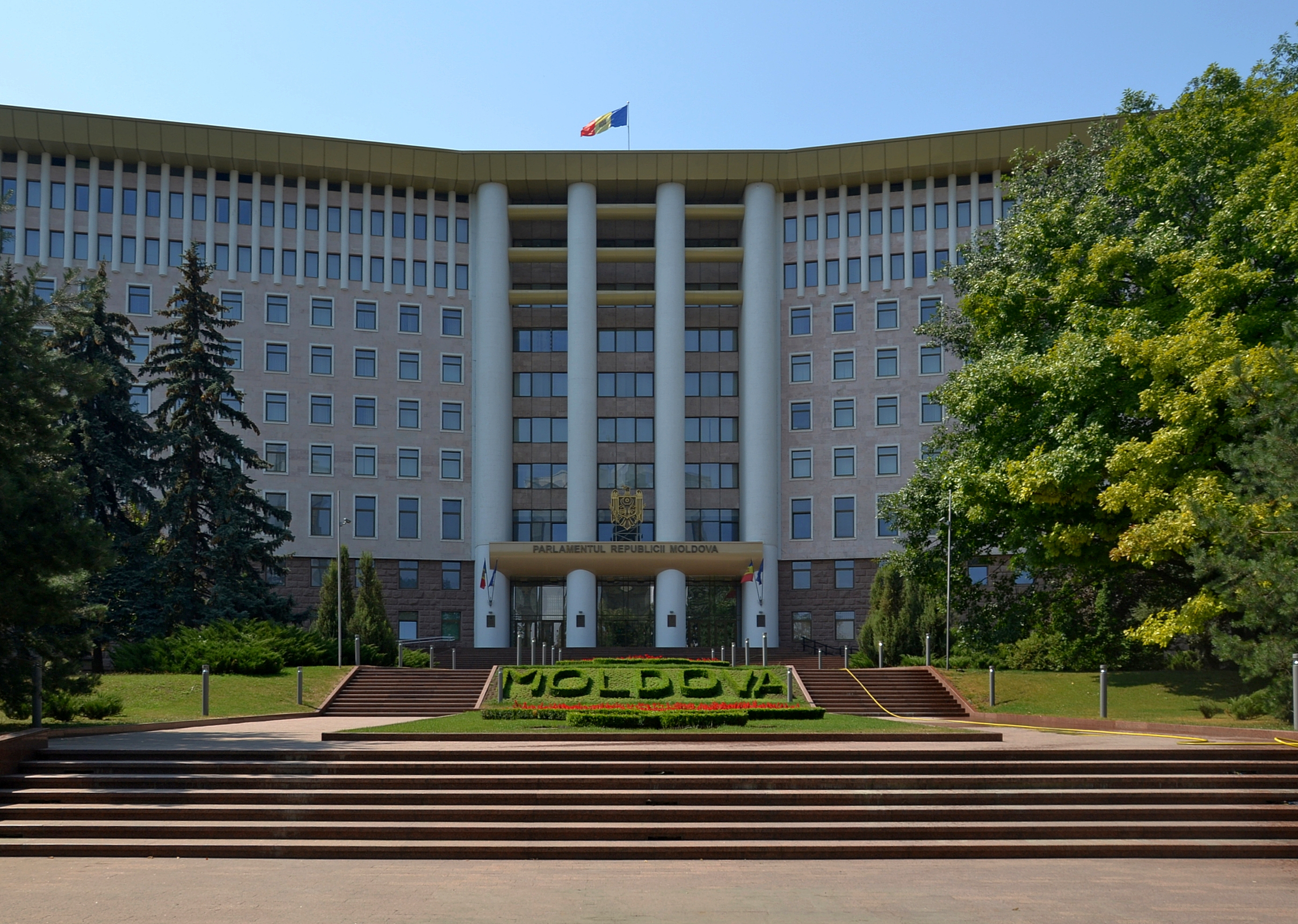 Parliament Building, Chișinău, Moldova